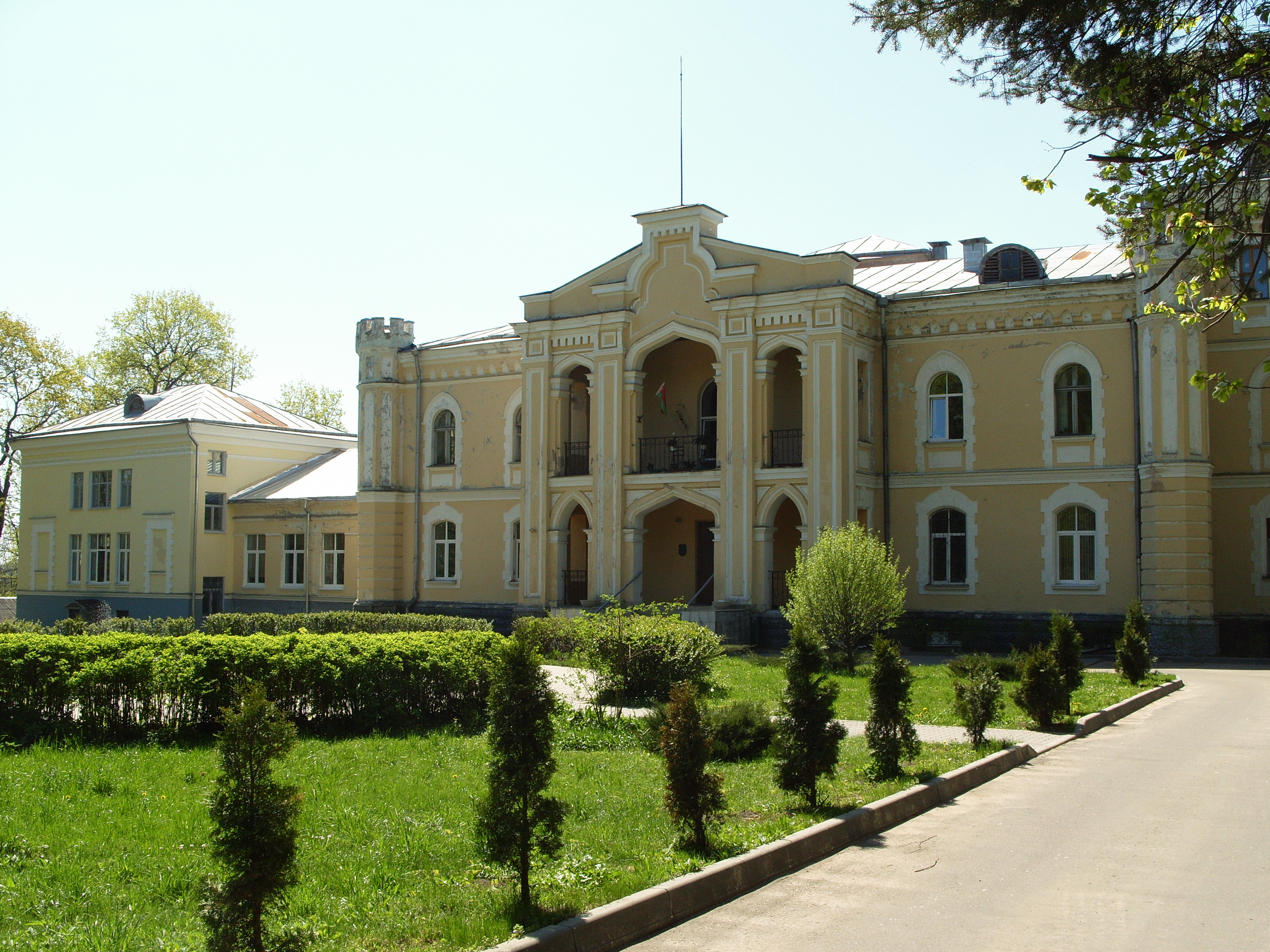 Беларуская (тарашкевіца): Палац Чапскіх, Прылукі This is a photo of Belarusian heritage monument. Reference number: 612Г000370 ( WLM)